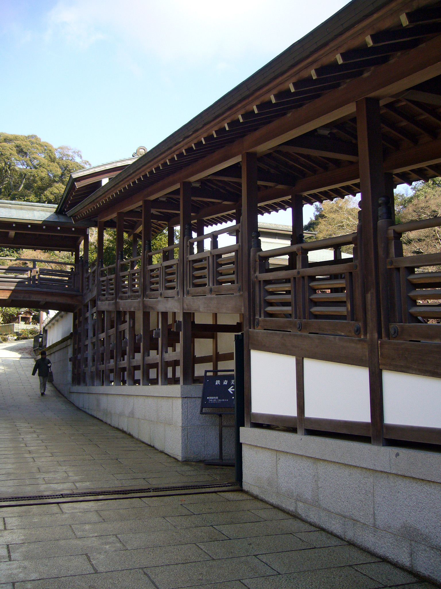 Tessai Museum of Art in Takarazuka, Hyogo prefecture, Japan